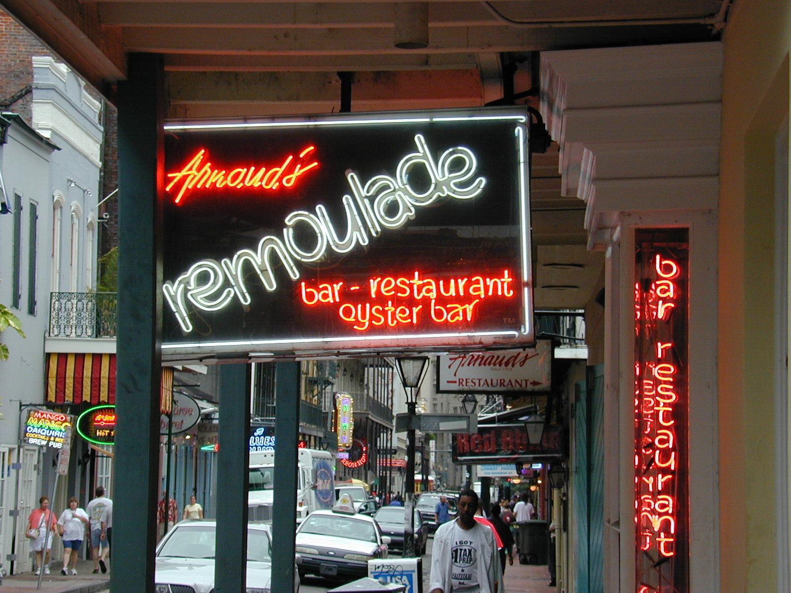 Sign outside Arnaud's Remoulade, Restaurant and Oyster bar, New Orleans. Picture taken by Jan Kronsell, July 2004